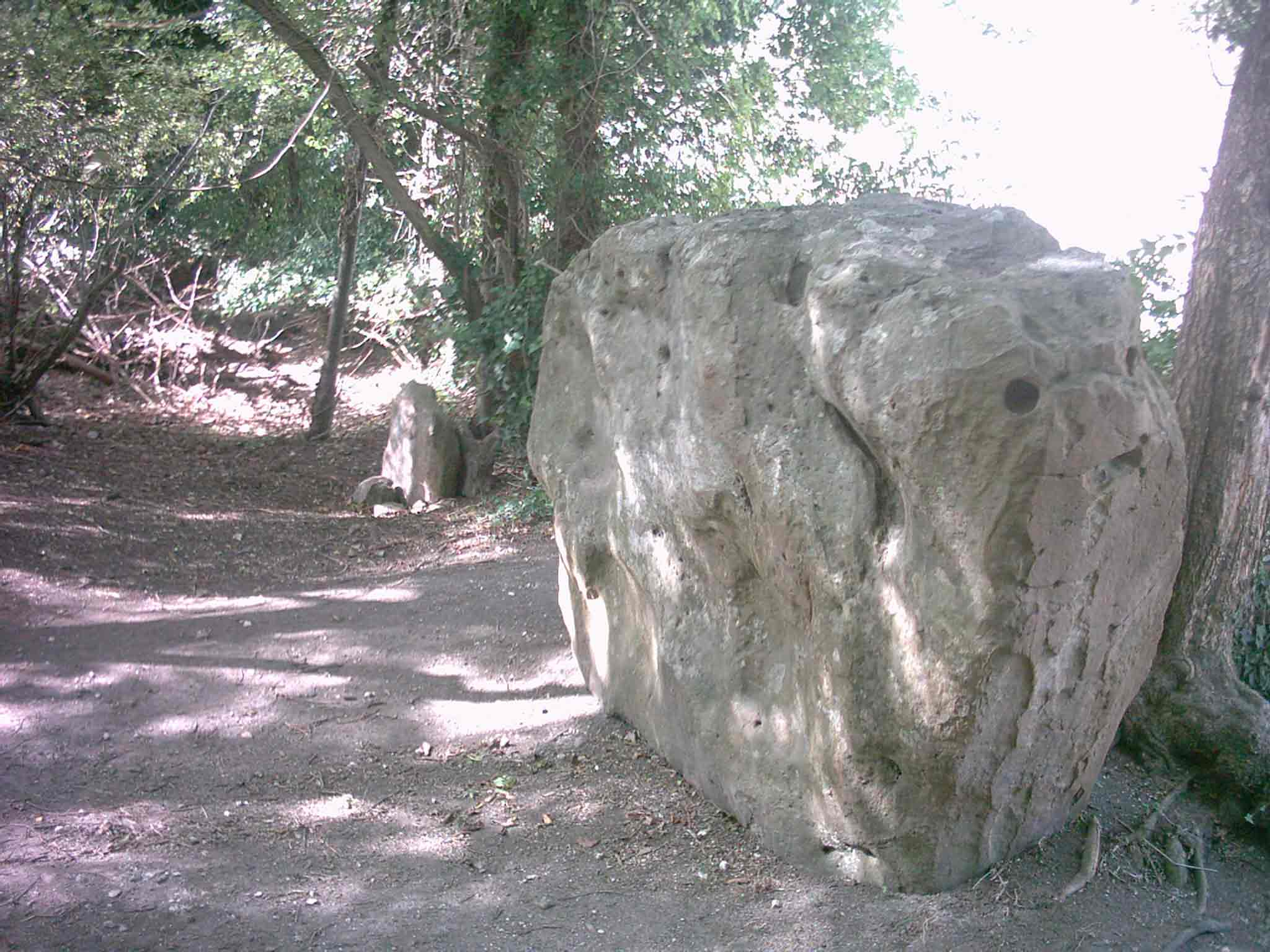 Upper White Horse Stone Neolithic Tomb in Kent.